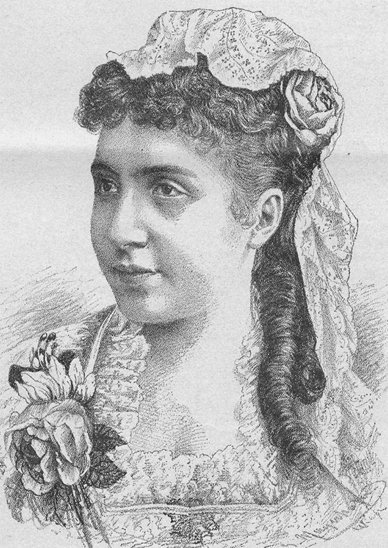 Croatian singer